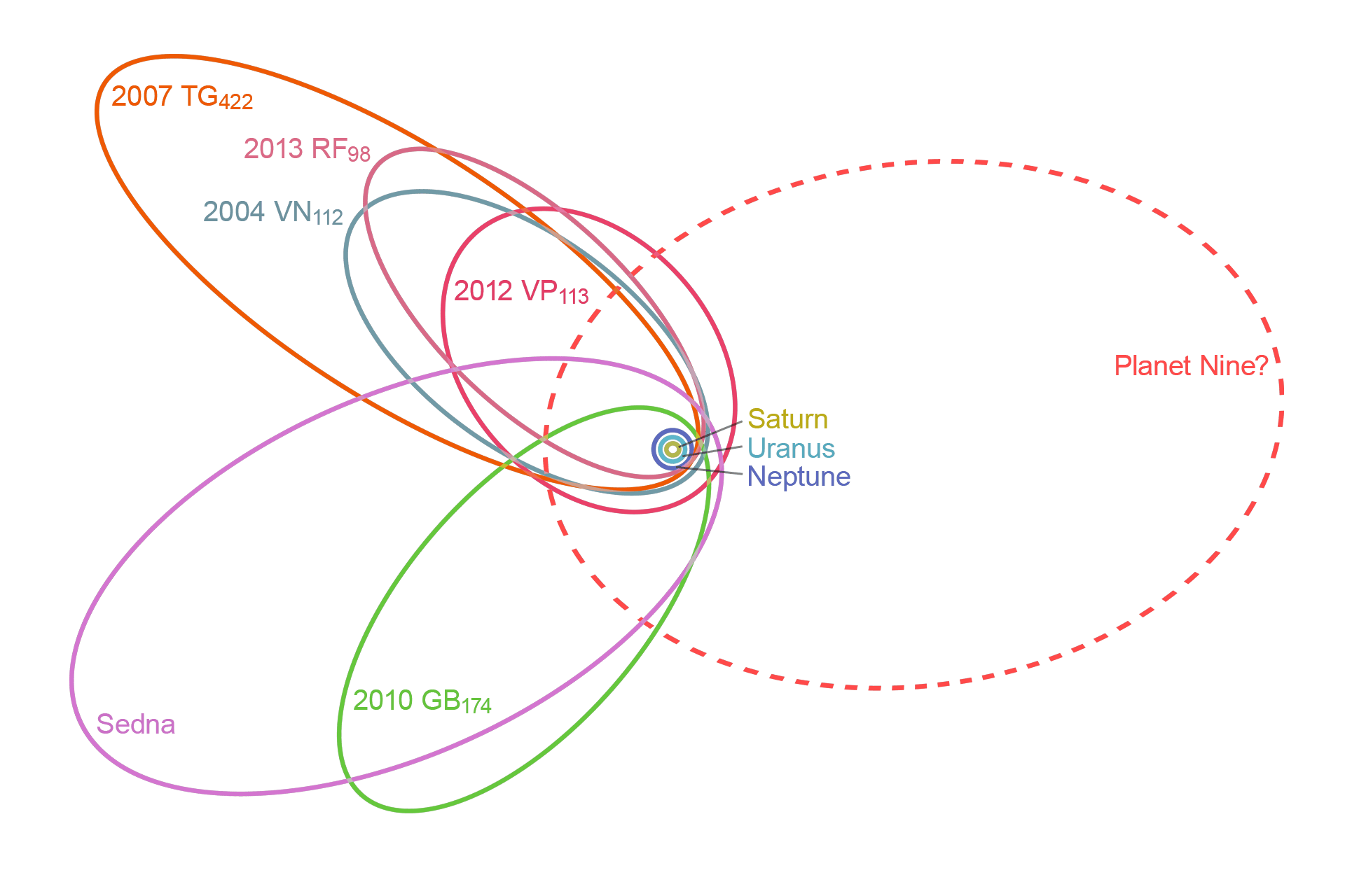 The unusually closely spaced orbits of six of the most distant objects in the Kuiper Belt indicate the existence of a ninth planet whose gravity affects these movements.